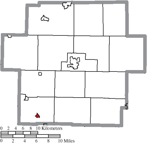 Map of the municipal and township boundaries of Carroll County, Ohio, United States, as of the 2000 census, with the location of the village of Leesville highlighted. Township borders are shown only in unincorporated areas in order to differentiate incorporated and unincorporated areas more clearly.